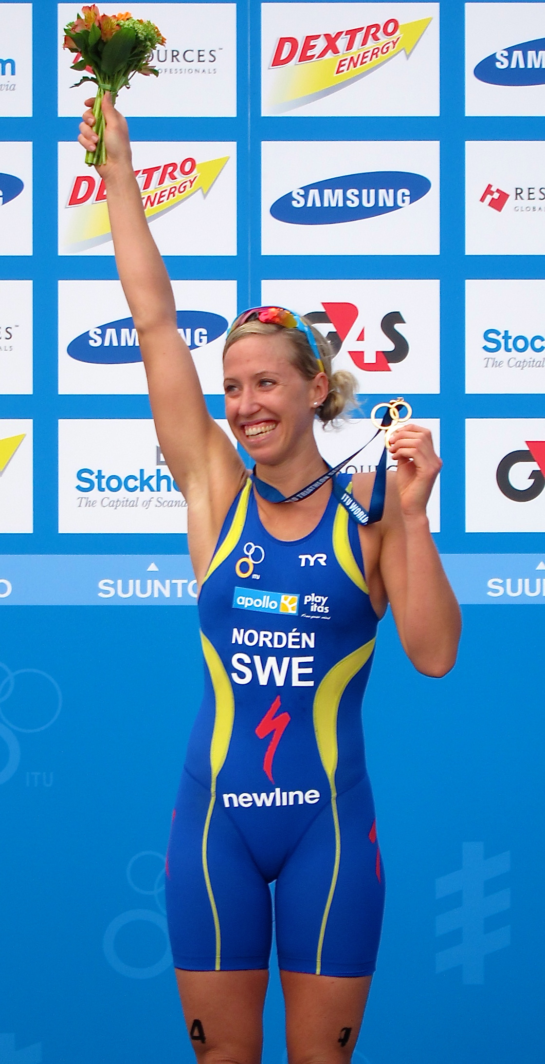 The winner in the female category in the 2012 ITU World Triathlon in Stockholm: Lisa Nordén, Sweden.